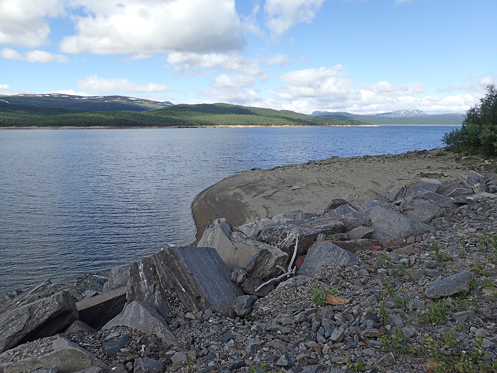 The eastern shore of lake Sädvajaure, Arjeplog Municipality, Sweden. The lake is regulated for hydro-electric purposes and the shore is highly eroded.